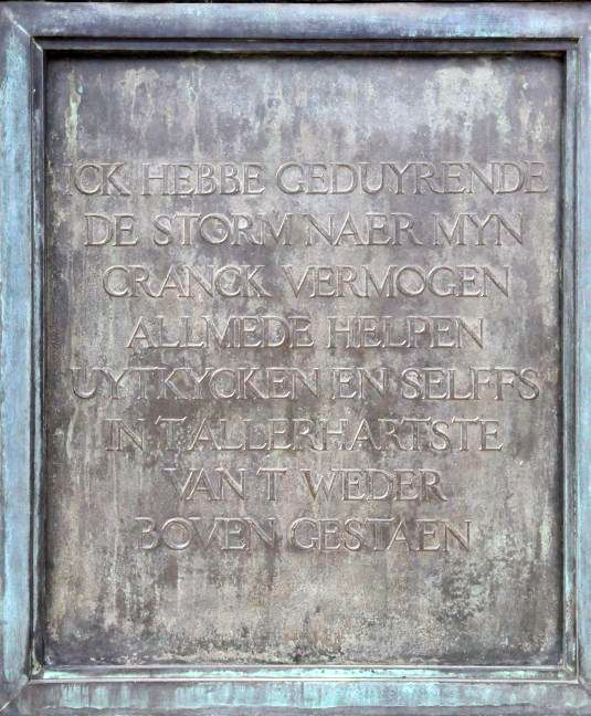 Text from a letter from 1665, when Johan de Witt traveled to Bergen (Norway) with the Dutch fleet